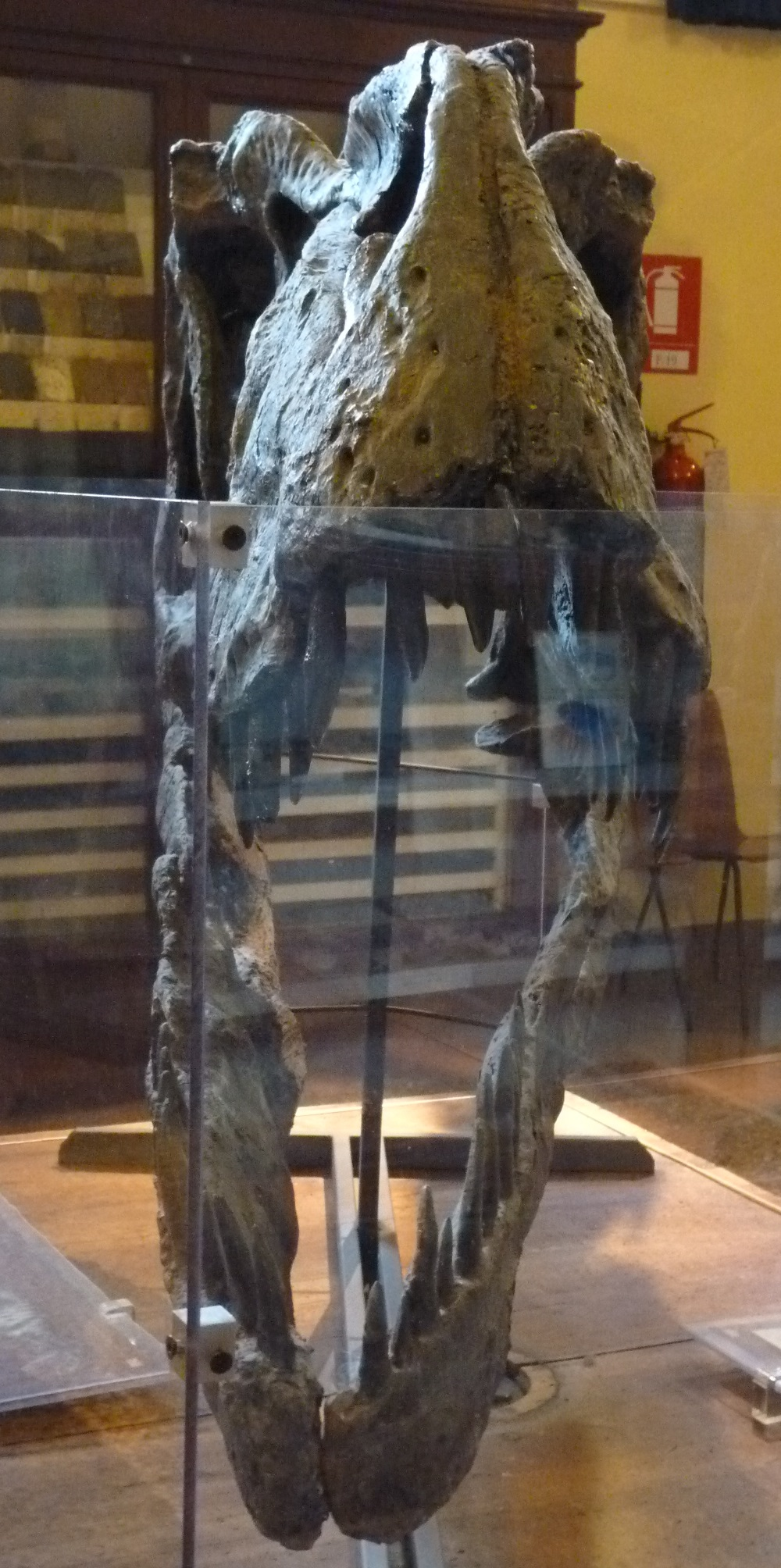 Skull of the theropod Torvosaurus tanneri (front view). Late Jurassic (Kimmeridgian-Tithonian, around 150 MYA), Morrison Formation (Colorado, USA). Museo Geologico Giovanni Capellini, Bologna (Italy).